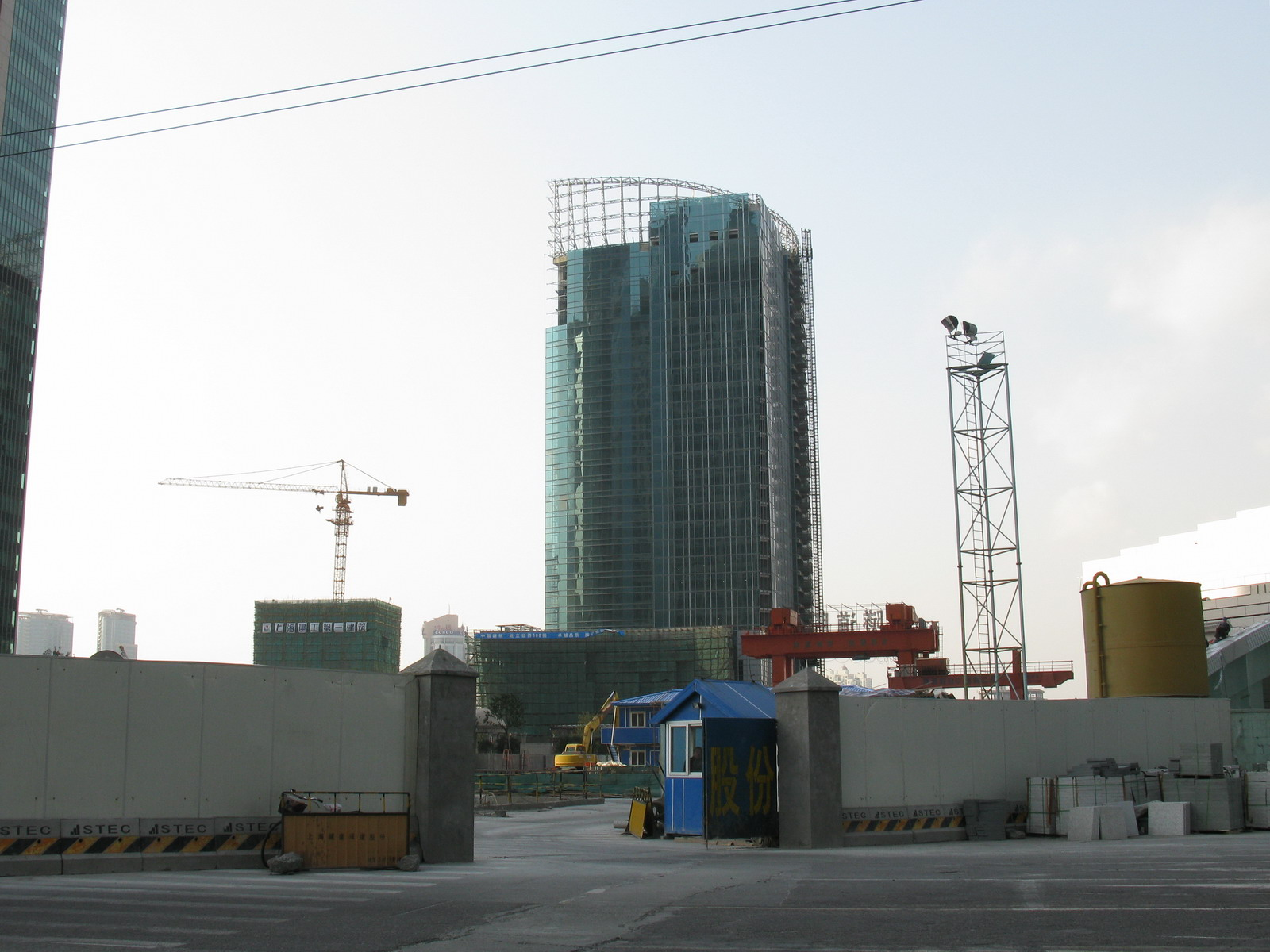 新建路隧道建筑工地 Construction Site of Xinjian Road Tunnel